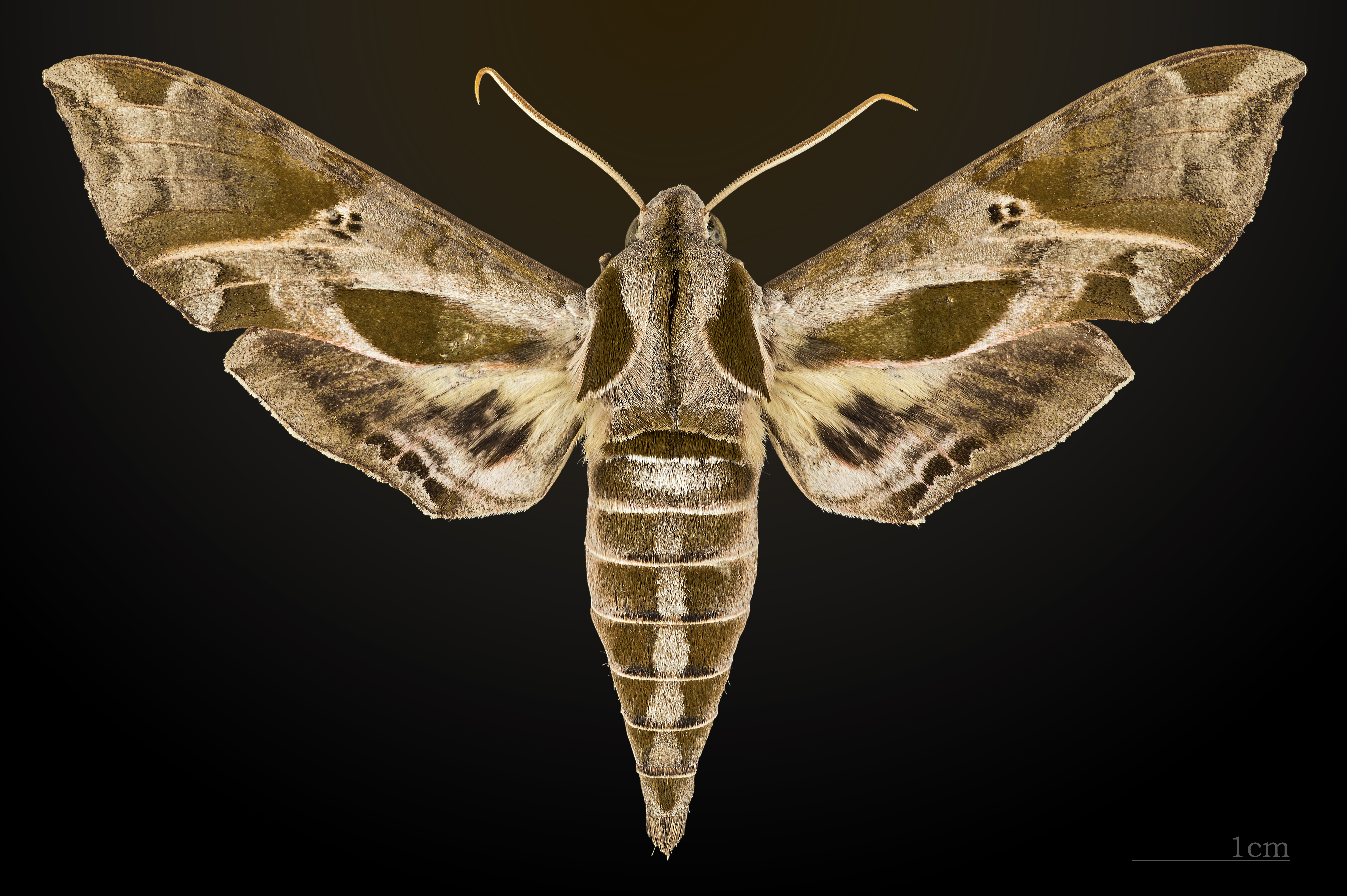 Satellite sphinx - Dorsal side Collection of the Mathematician Laurent Schwartz